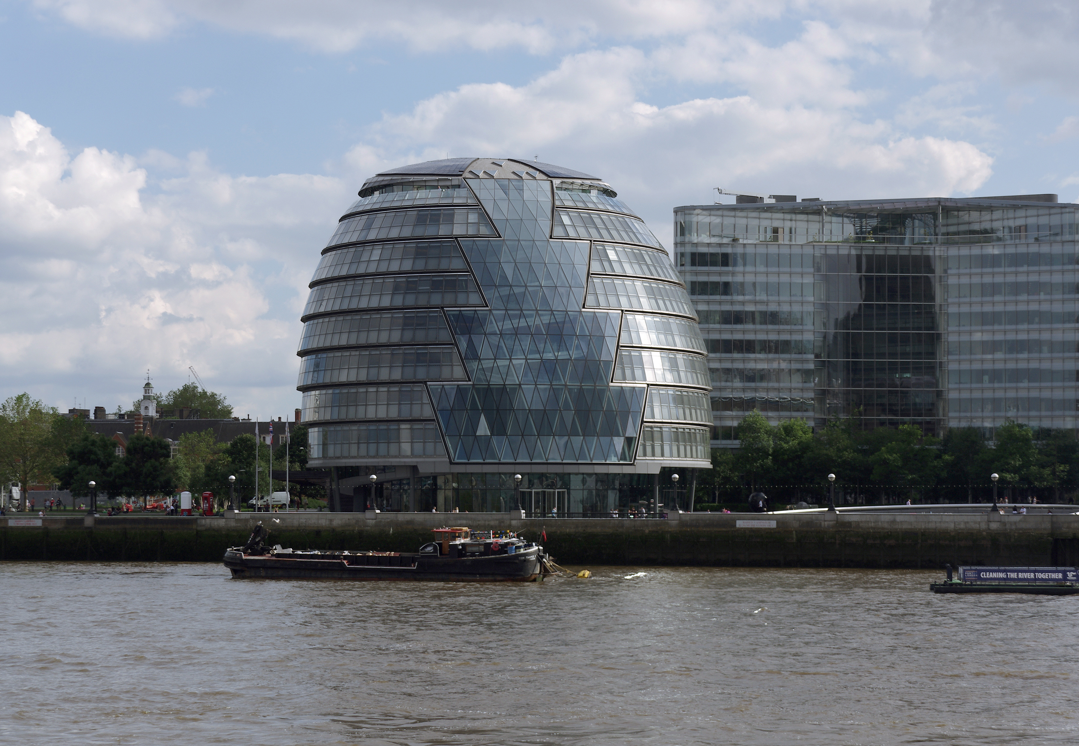 Buildings on the banks of the River Thames near Tower Bridge.